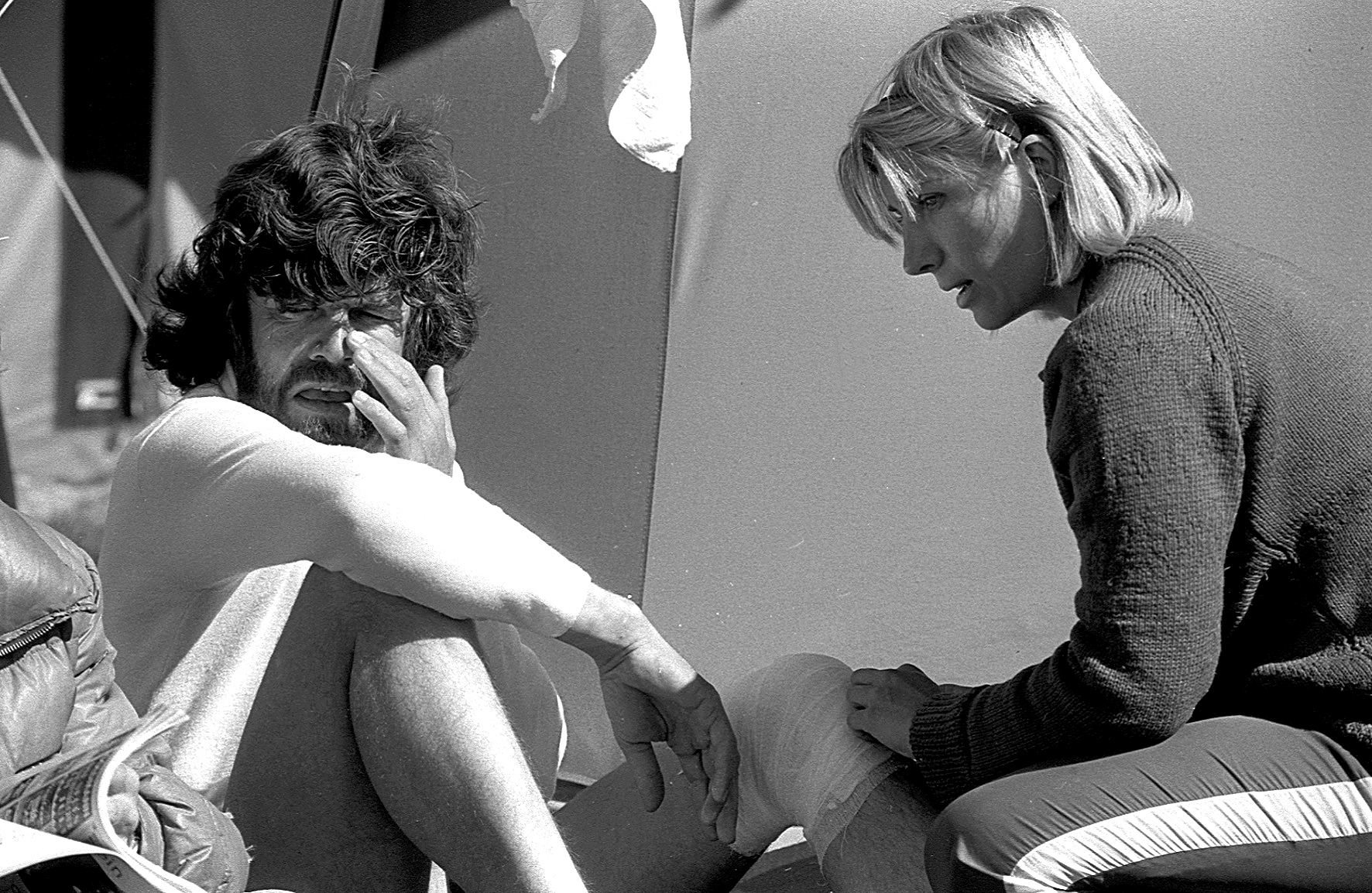 Reinhold Messner in 1985 in Pamir Mountains.